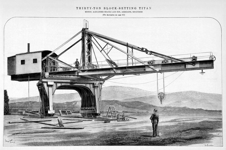 30-Ton Block-Setting Titan: Alexander Shanks and Son, Arbroath